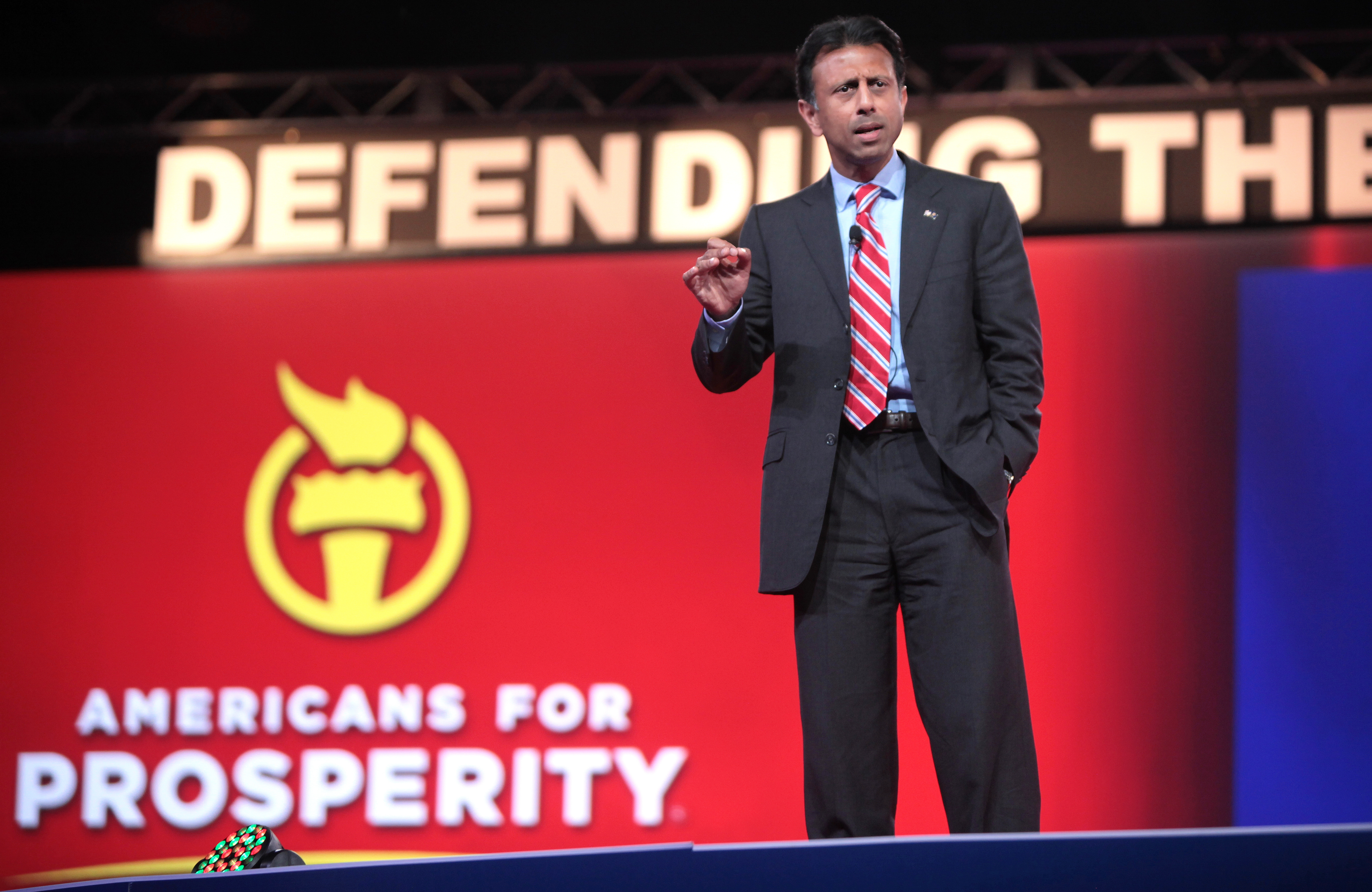 Columbus, Ohio